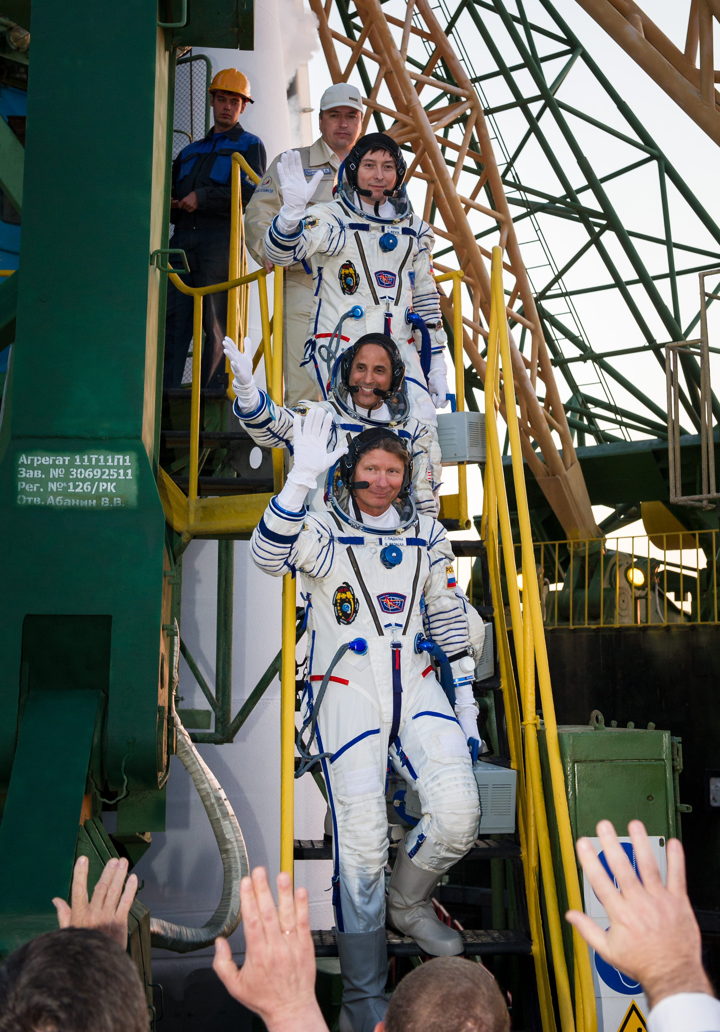 Expedition 31 Soyuz Commander Gennady Padalka, bottom, NASA Flight Engineer Joseph Acaba and Flight Engineer Sergei Revin, top, wave farewell from the base of the Soyuz rocket at the Baikonur Cosmodrome in Kazakhstan, Tuesday, May 15, 2012. The launch of the Soyuz spacecraft with Padalka, Revin, and Acaba is scheduled for 9:01 a.m. local time on Tuesday, May 15. Photo Credit (NASA/Bill Ingalls)